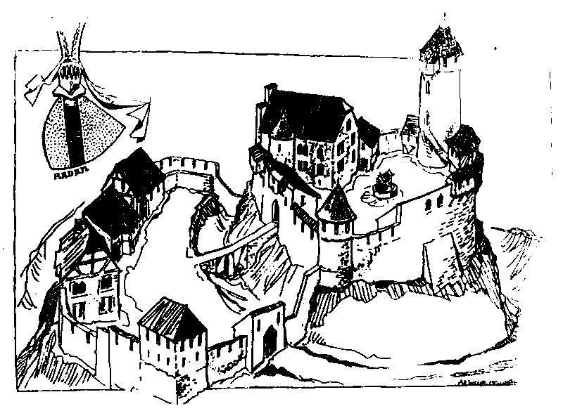 An artist's rendition of the castle at Sausenburg in its prime. This drawing is posted outside of the existing castle ruins and was produced by the government of the state of Baden-Wuerttemberg and is in the public domain. The photograph of the drawing was released into the public domain by the author. This photograph was then manipulated by Grimhelm to remove the existing reflections from the image.